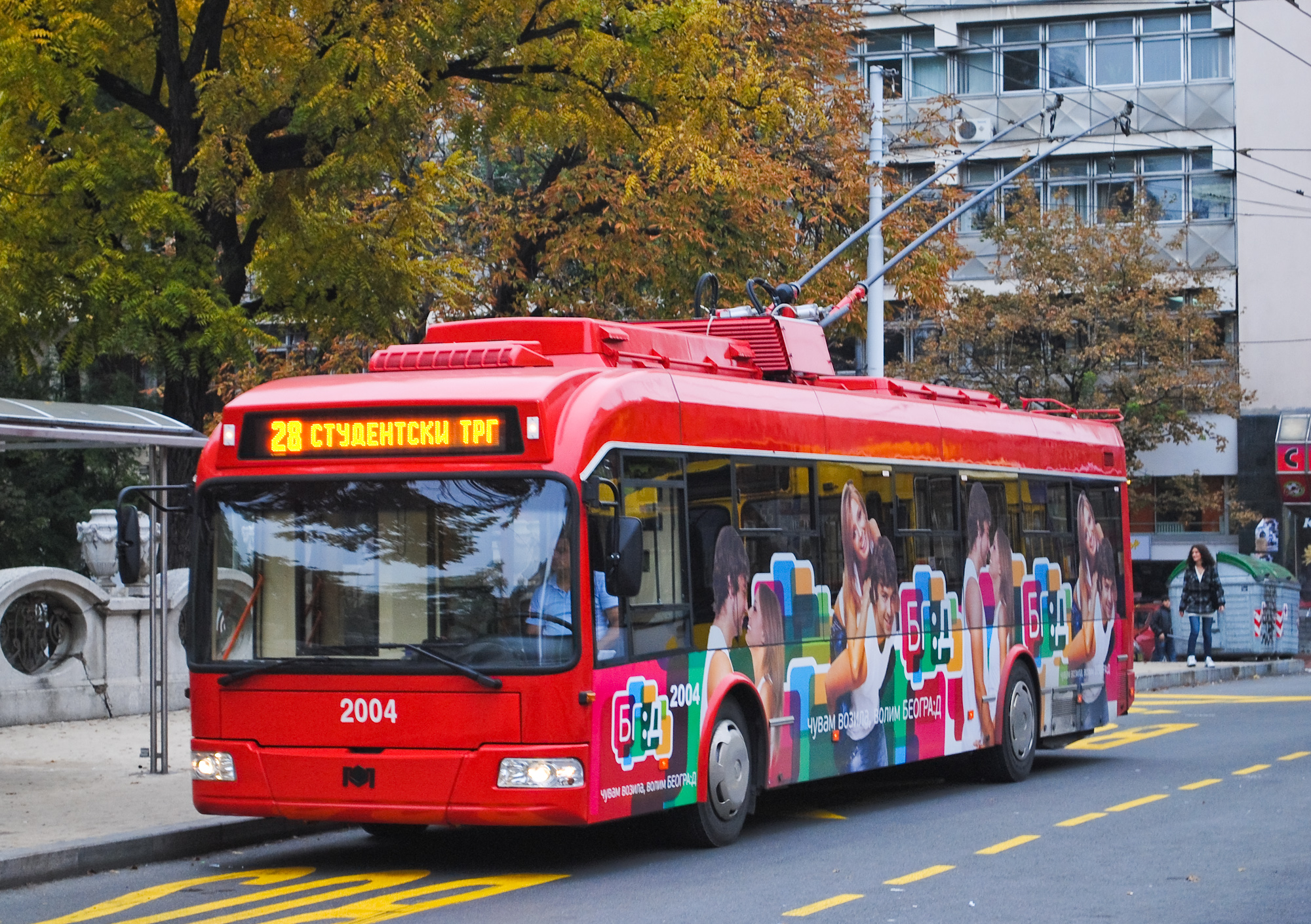 Trolleybus on Student square, Belgrade, Serbia.